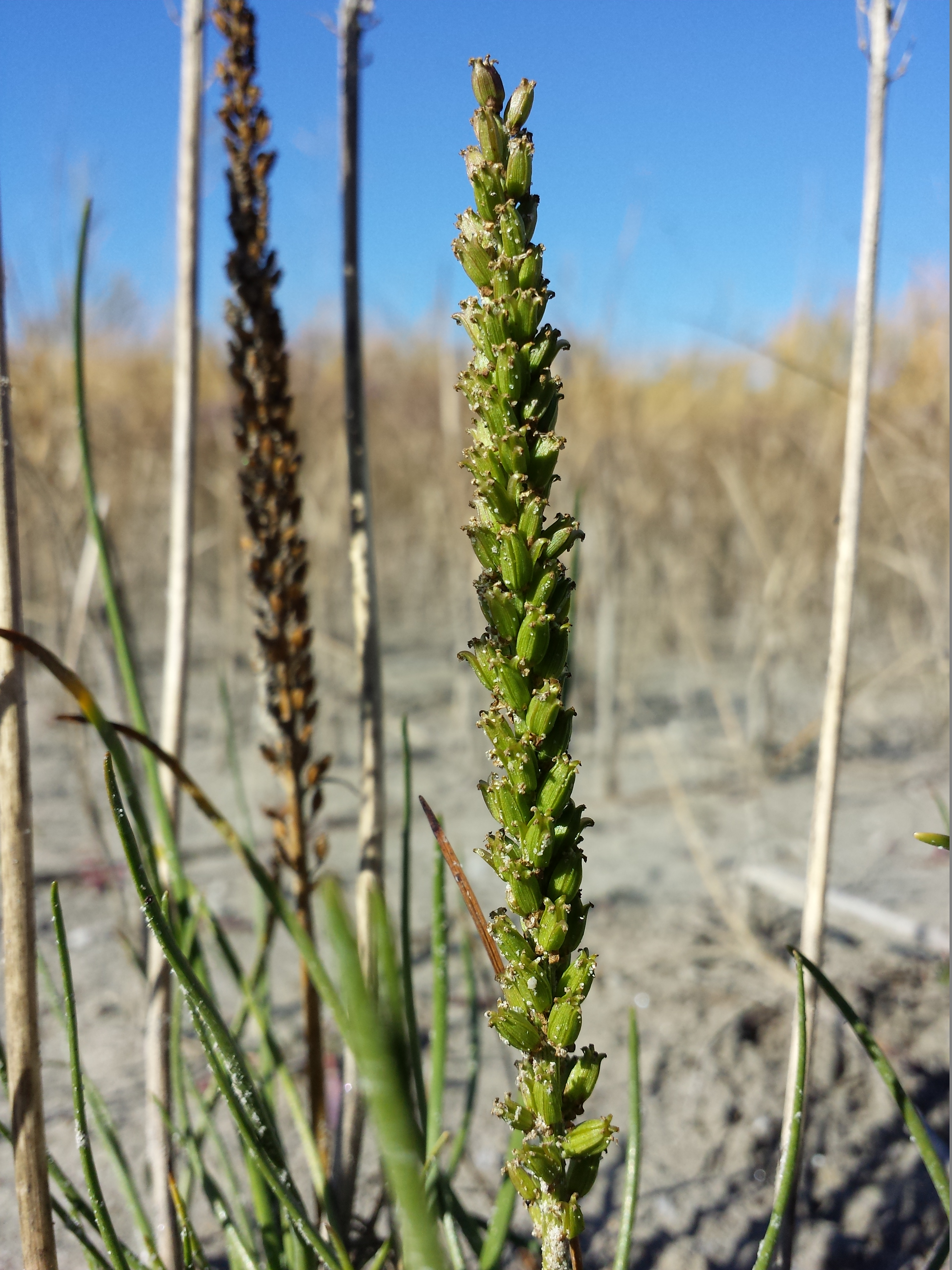 Florescence Taxon: Triglochin maritimum (sensu Fischer et al. EfÖLS 2008; det M. A. Fischer 2013-10-12) Location: small salt lake near Podersdorf, district Neusiedl am See, Burgenland, Austria - ca. 120 m a.s.l. Habitat: dried-out small salt lake